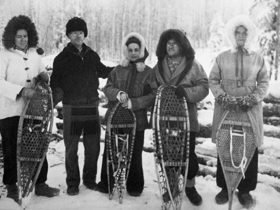 Group of Saskatoon artists dressed in winter garb with snowshoes, at Okema (Beach), Emma Lake, L to R: Nonie Mulcaster, Dr. Leslie Saunders, Bodil Lindner, Ernest Lindner (?), Edith Cook?